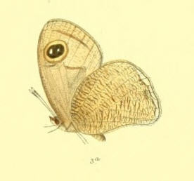 Hemadara narasingha